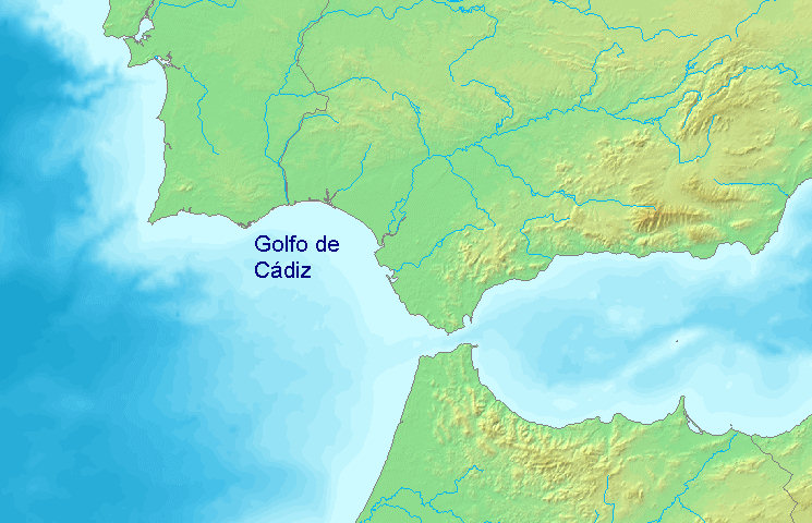 Gulf of Cadiz